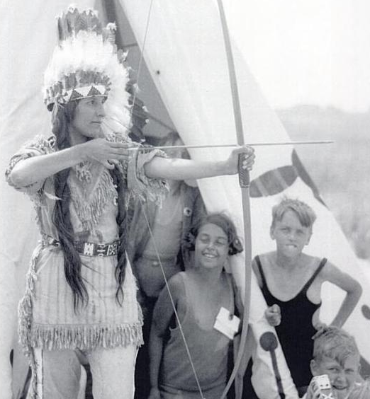 Rosebud Yellow Robe demonstrating how to use a bow and arrow at the Indian Village at Jones Beach State Park, New York. Other information No. This work is in the public domain because it was published in the United States between 1924 and 1963 and although there may or may not have been a copyright notice, the copyright was not renewed. Unless its author has been dead for the required period, it is copyrighted in the countries or areas that do not apply the rule of the shorter term for US works, such as Canada (50 pma), Mainland China (50 pma, not Hong Kong or Macao), Germany (70 pma), Mexico (100 pma), Switzerland (70 pma), and other countries with individual treaties. See Commons:Hirtle chart for further explanation.